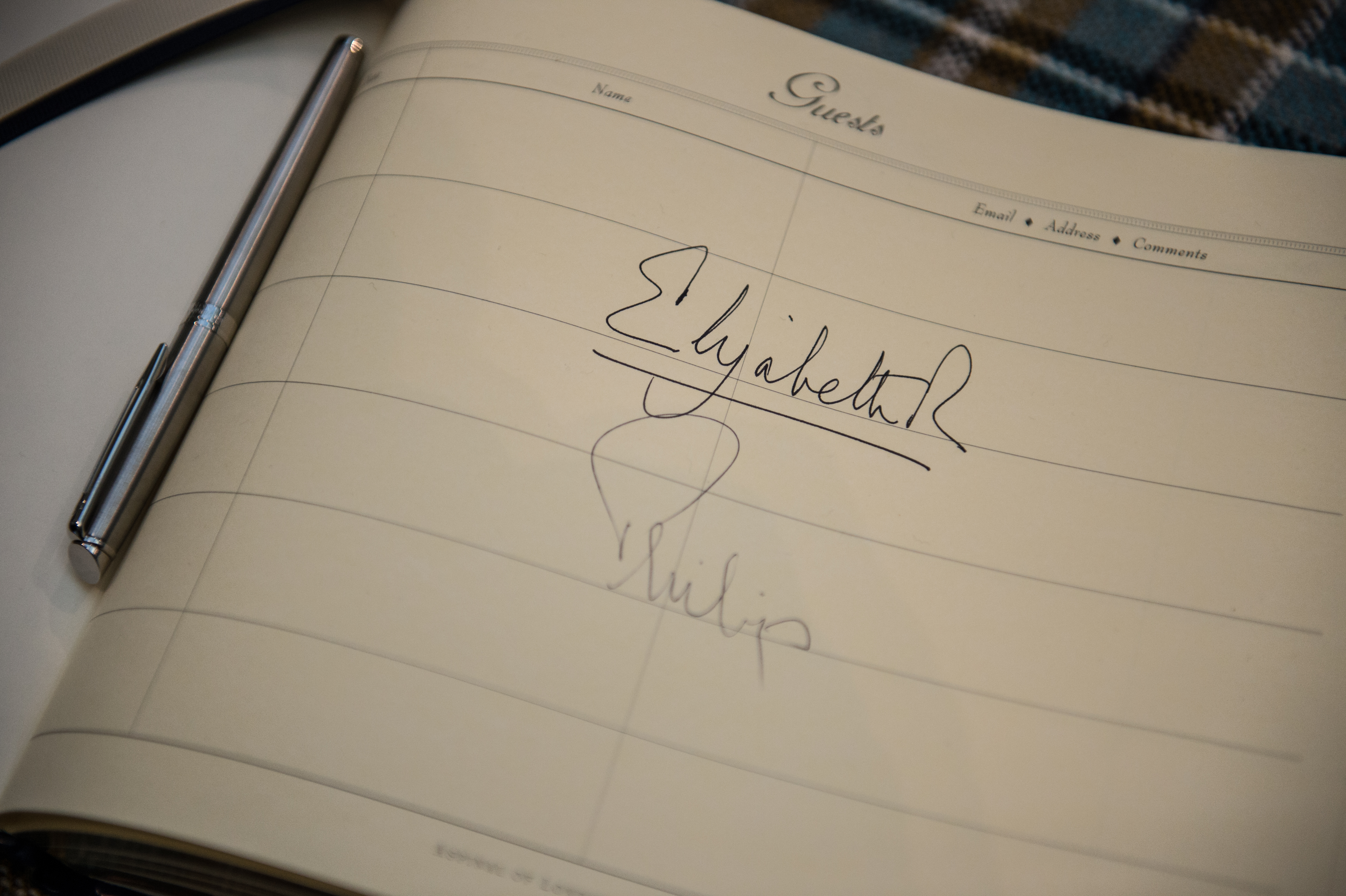 Signature of Elizabeth II